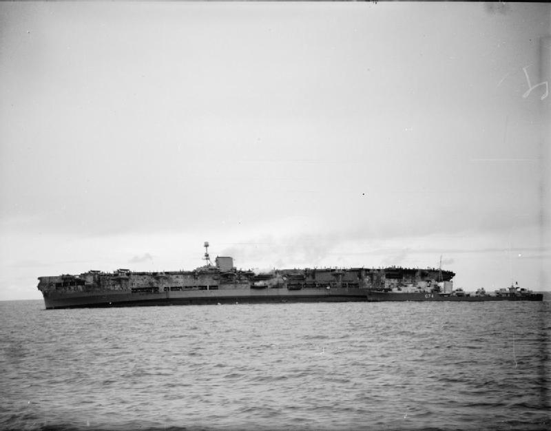 The Battle of the Atlantic 1939-1945 Shipping losses: HMS ARK ROYAL sinking after being torpedoed by U 81. HMS LEGION is alongside to take off survivors. HMS LAFOREY is approaching to aid in providing water and power to the few remaining personnel on board.